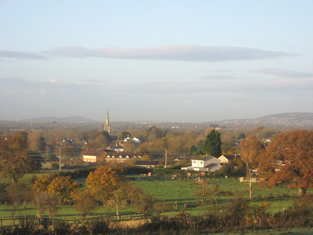 Congresbury from north-east